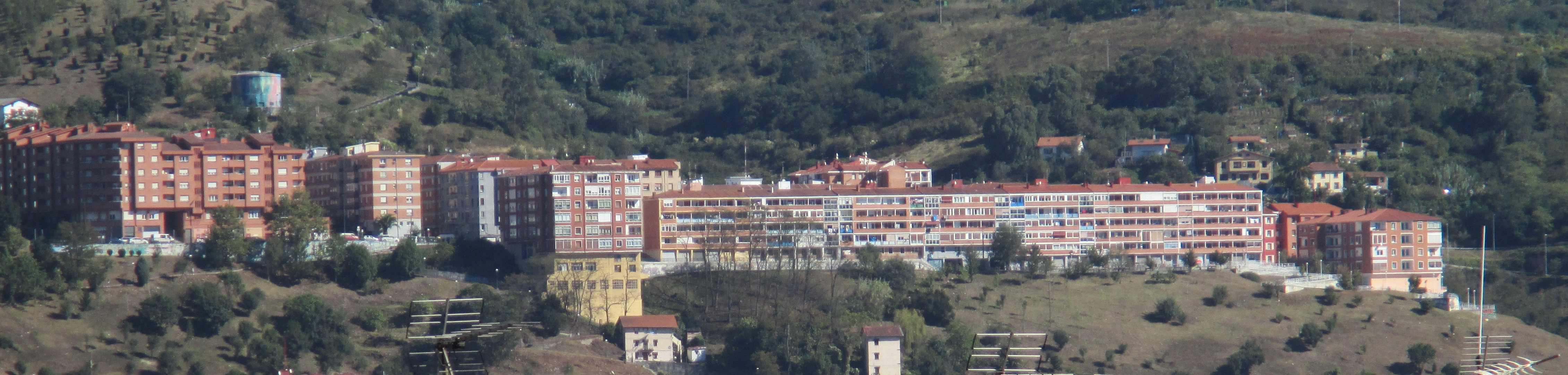 Arangoiti (Deusto-Deustua) as seen from Basurto-Basurtu, Bilbao.